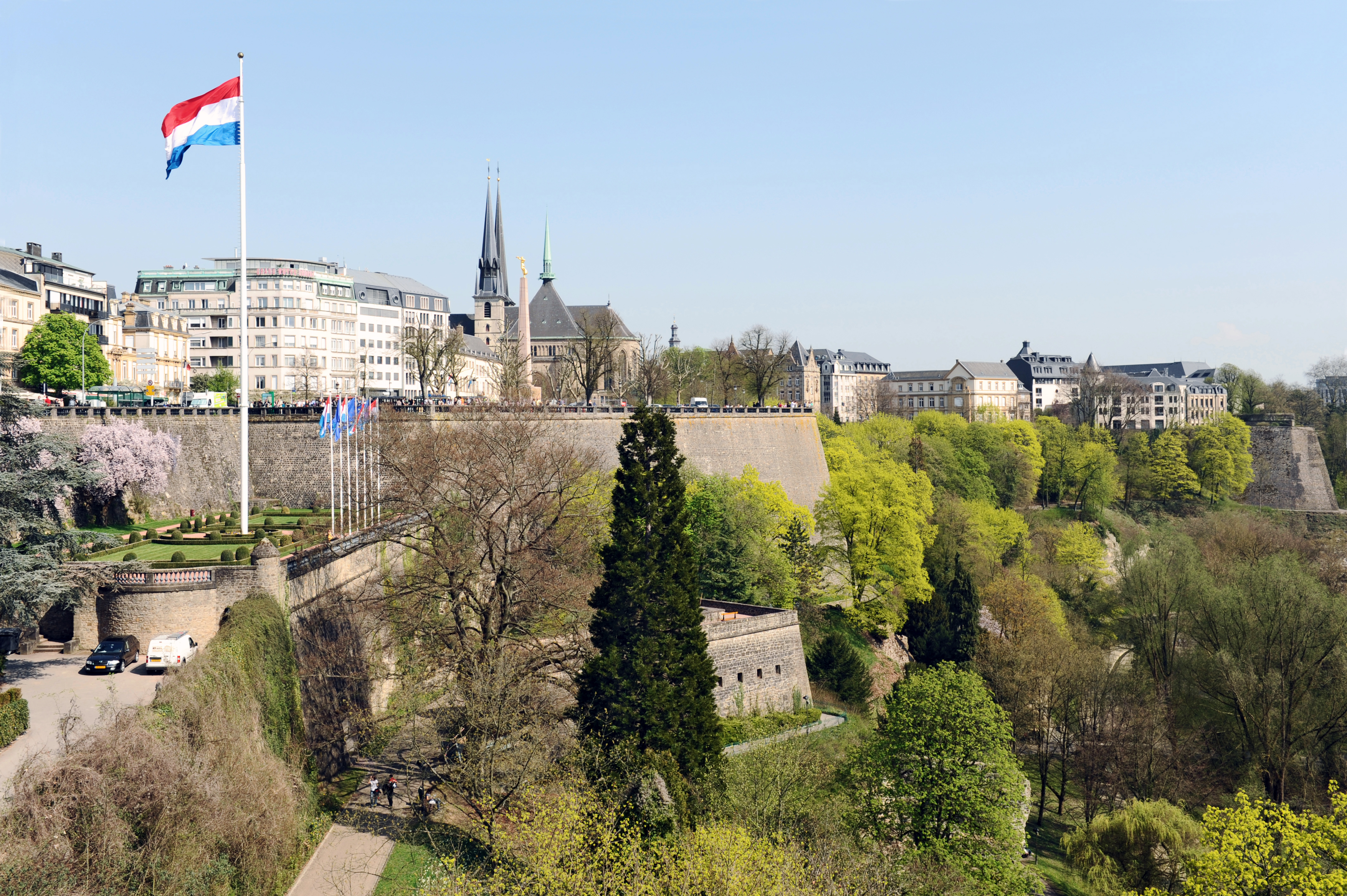 Luxembourg City: Fortress with Bastion Beck, Monument du souvenir (Gëlle Fra) and Petrusse valley. Seen from Adolphe Bridge.